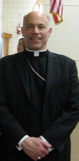 Archbishop Salvatore J. Cordileone